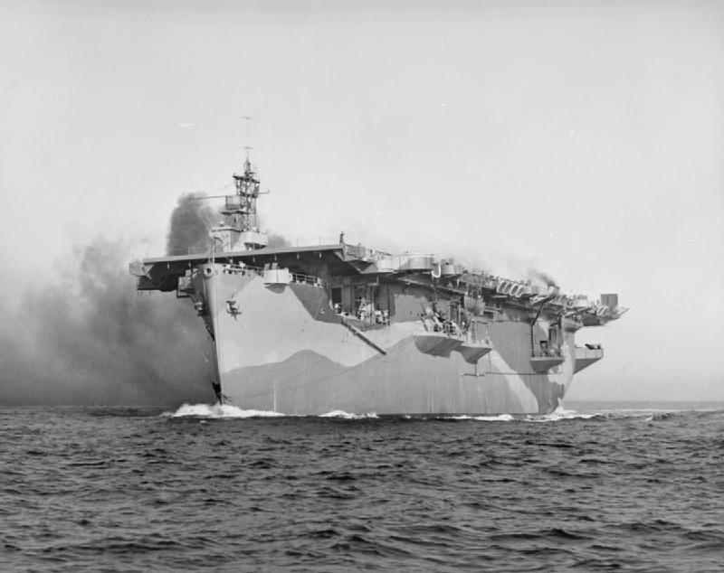 HMS Battler Underway, coastal waters.